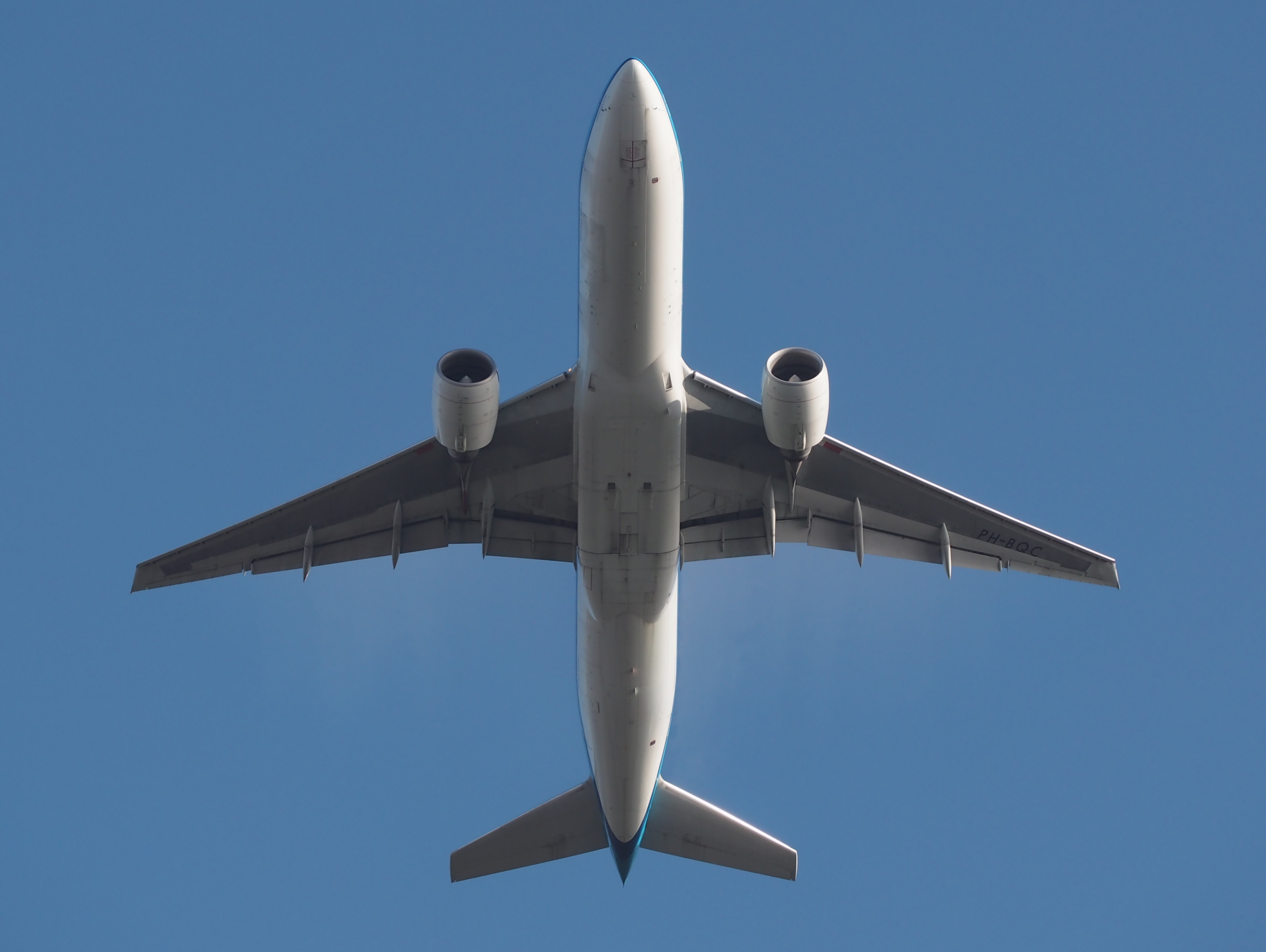 Template:EnBottom view. Photographed near Schiphol Airport, Amsterdam.